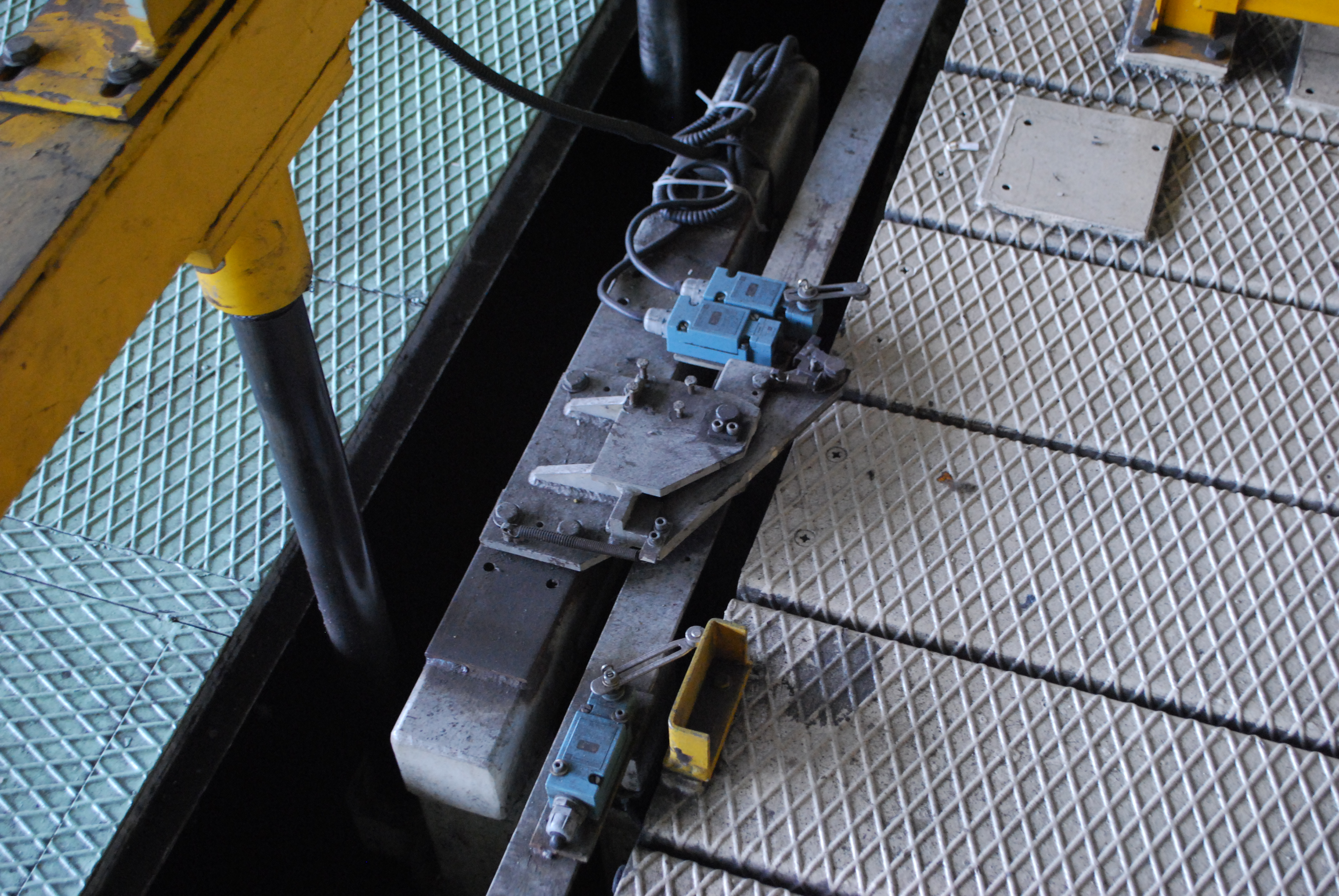 Limit Switch(es).